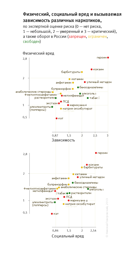 The harm of diffrent drugs